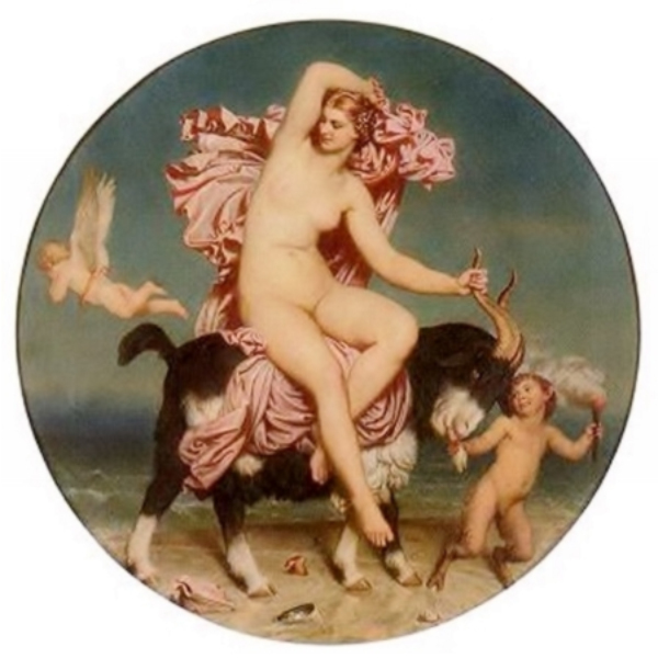 A nude Venus riding a goat in a seaside setting. She holds a mantle in her right hand and goat horn in her left while watching Cupid fly in the opposite direction. A satyr (looking at Venus) leads the goat by its beard and holds a torch